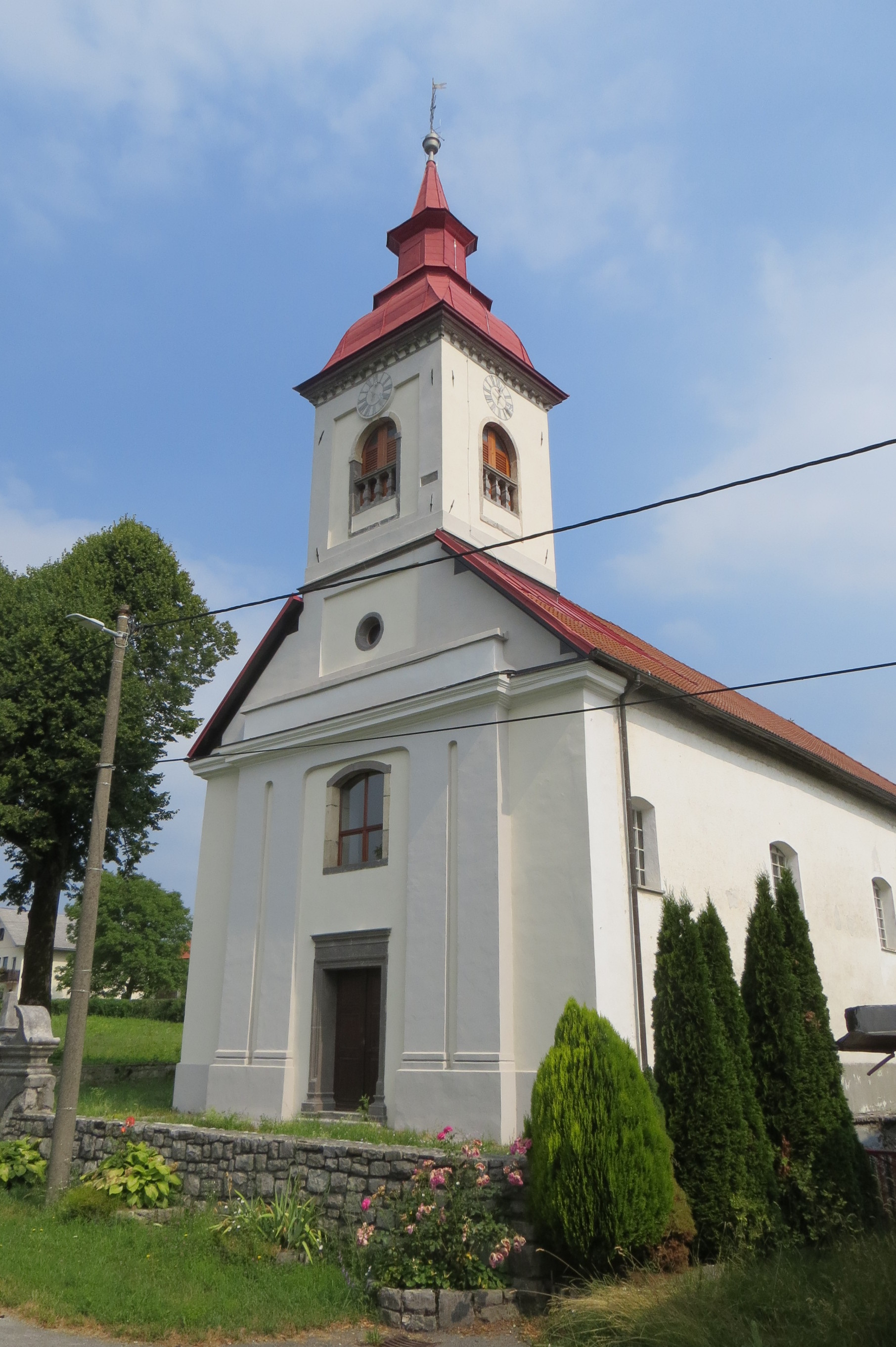 Saint Anne's Church in Hrašče, Municipality of Postojna, Slovenia